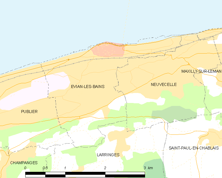 Map of French municipality Évian-les-Bains